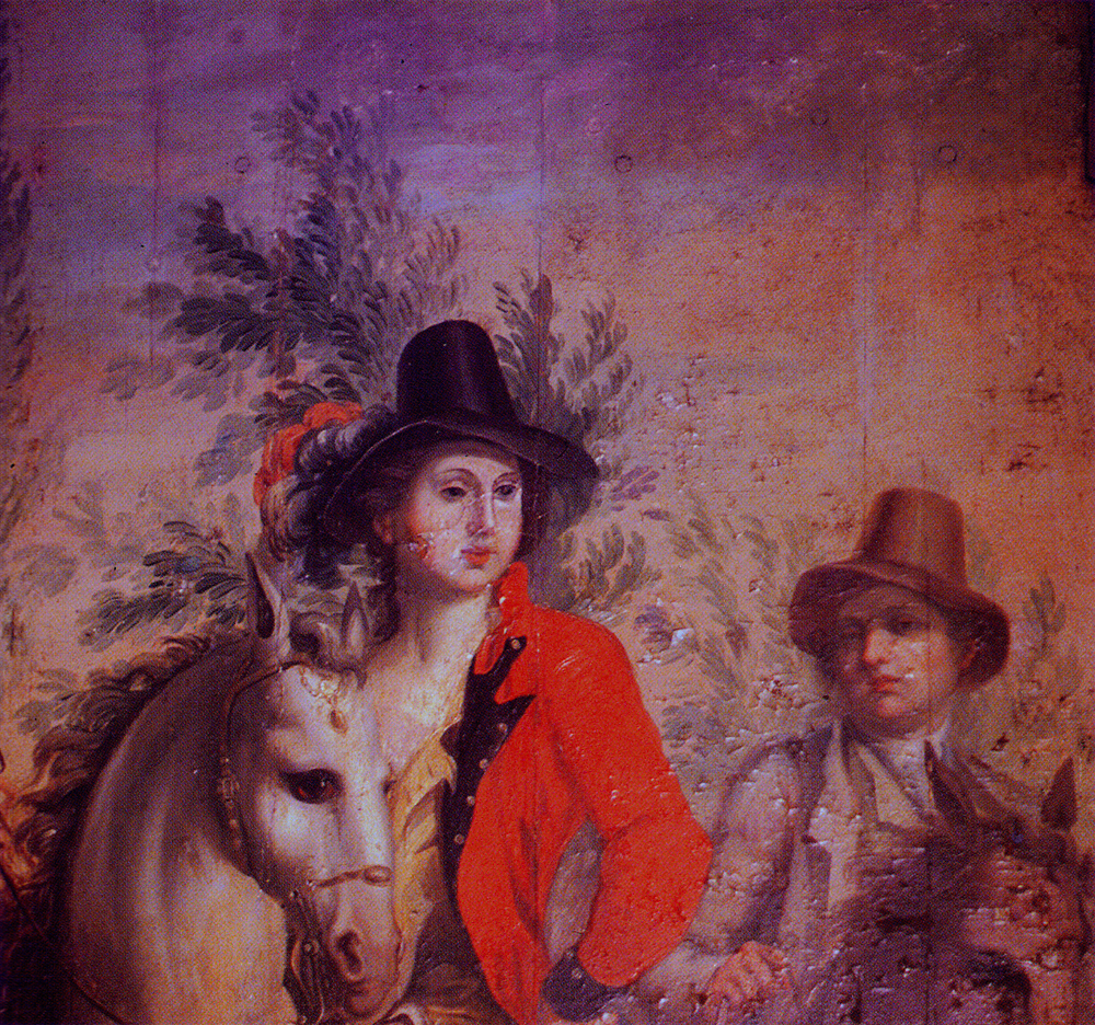 Alessandra Cini, better known as Alessandra Mari because her husband the captain Lorenzo Mari, one of the leaders of the antinapoleonic resistance called "Viva Maria" on 1799 in Tuscany